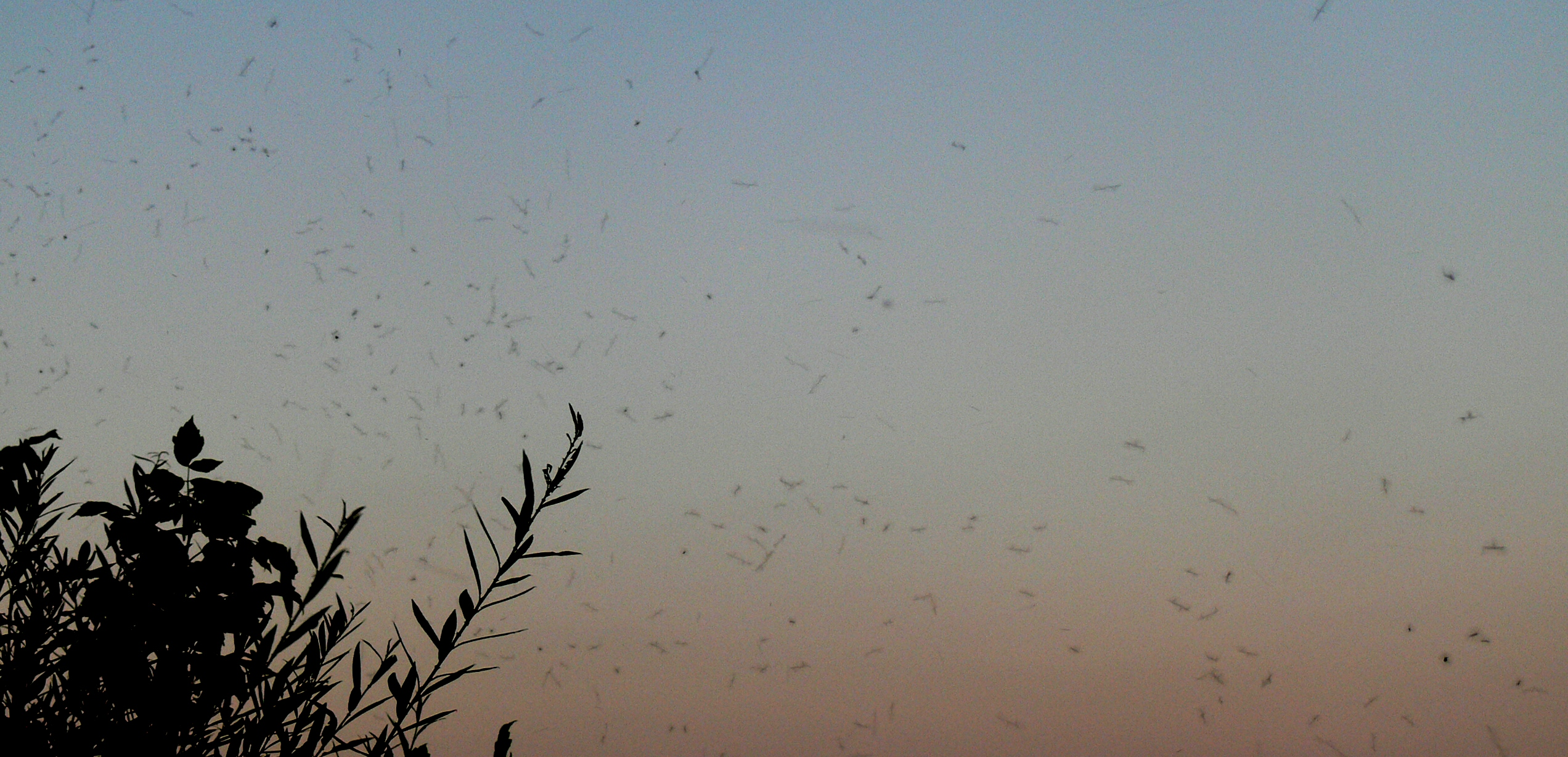 Aeroplankton photographed in Meung-sur-Loire, above the river Loire (France). Several dozens of insects per m3 of air are present over the entire width of river. During all the day thousands of swallows hunt them and during the night a large number of bats and spiders captured in the unusually high number because of phenomena of light pollution where it exists.